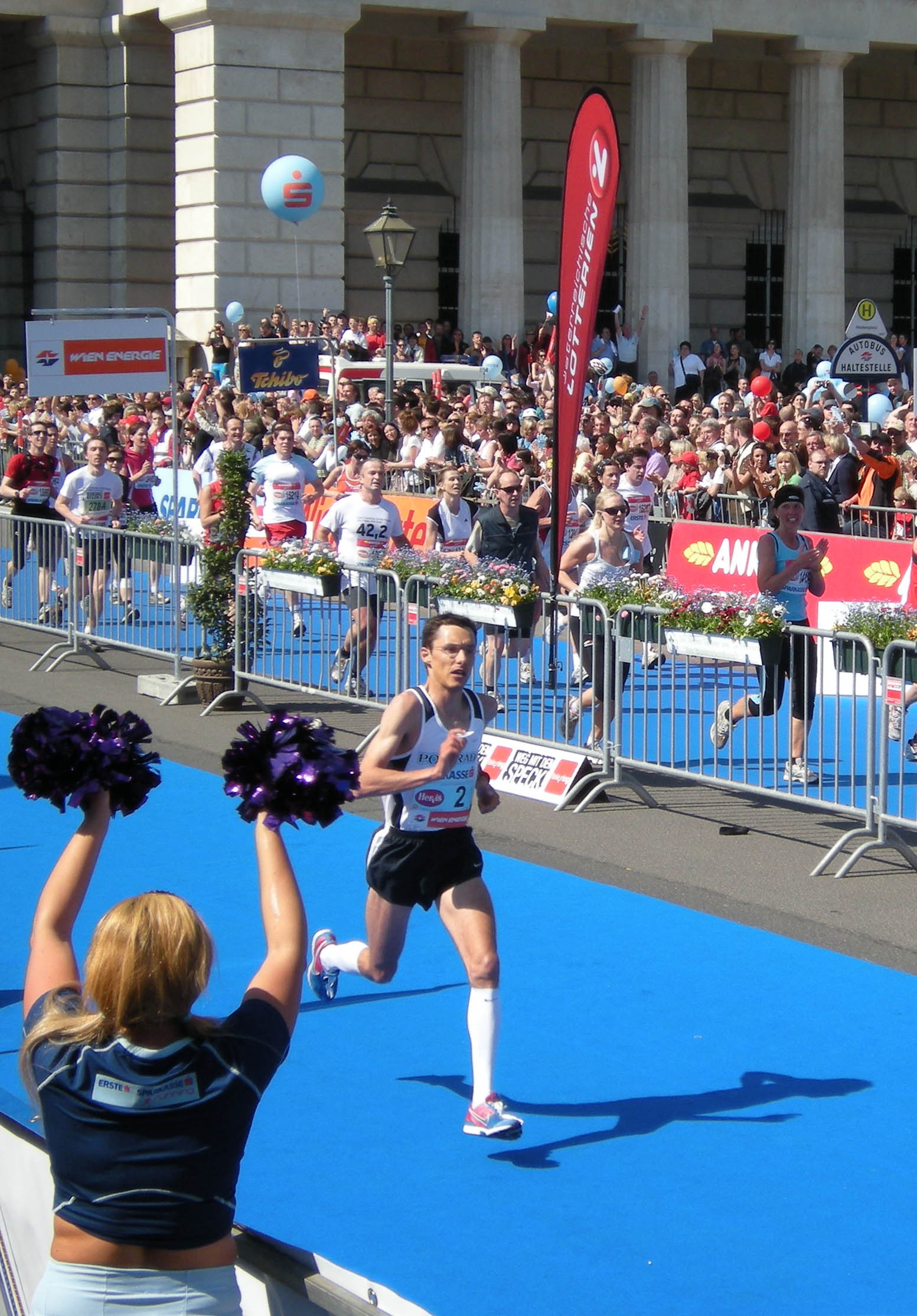 Vienna City Marathon 2009; on details, see filename or official Note: Camera time is set on UTC, which is local time -2, and might be wrong ~ +/-1_min.